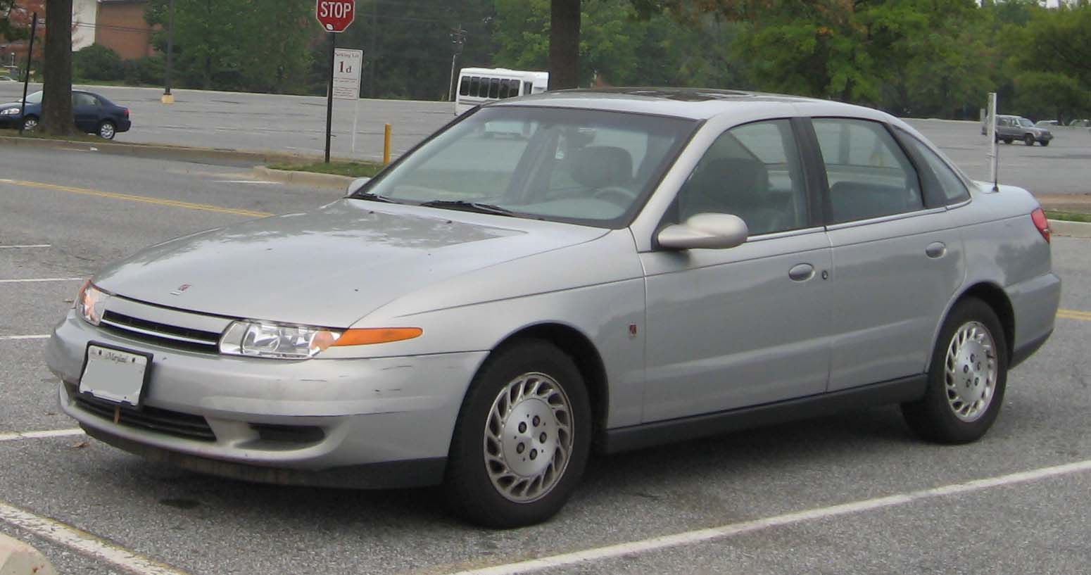 2000-2002 Saturn L-Series photographed in College Park, Maryland, USA.